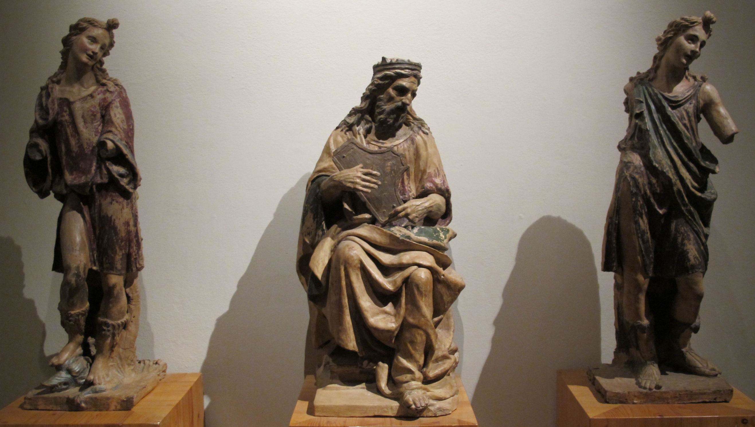 Sculpture in the National Pinacotheque, Siena